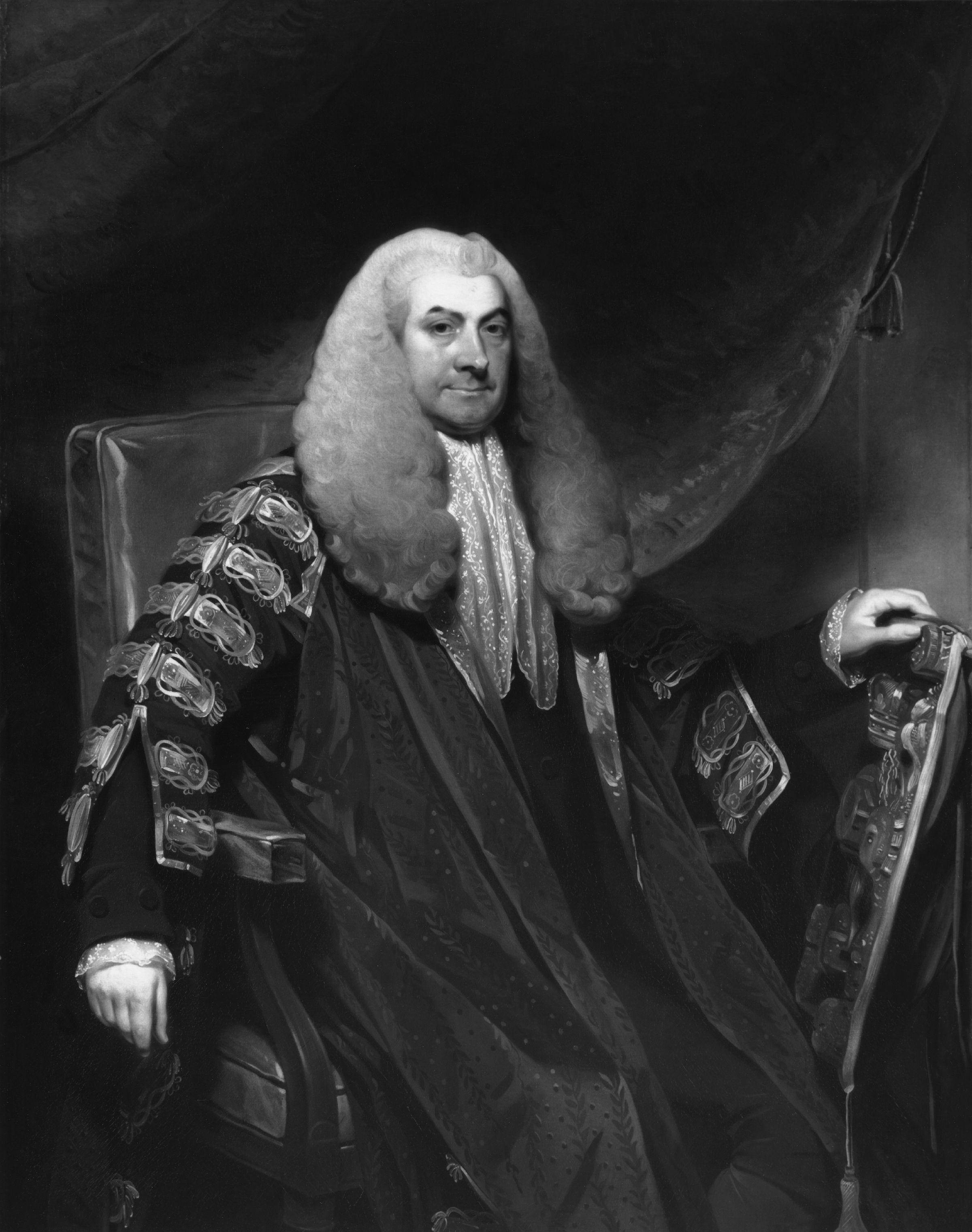 John Freeman-Mitford, 1st Baron Redesdale, by Sir Martin Archer Shee (died 1850), given to the National Portrait Gallery, London in 1900. All images in this batch have been confirmed as author died before 1939 according to the official death date listed by the NPG.